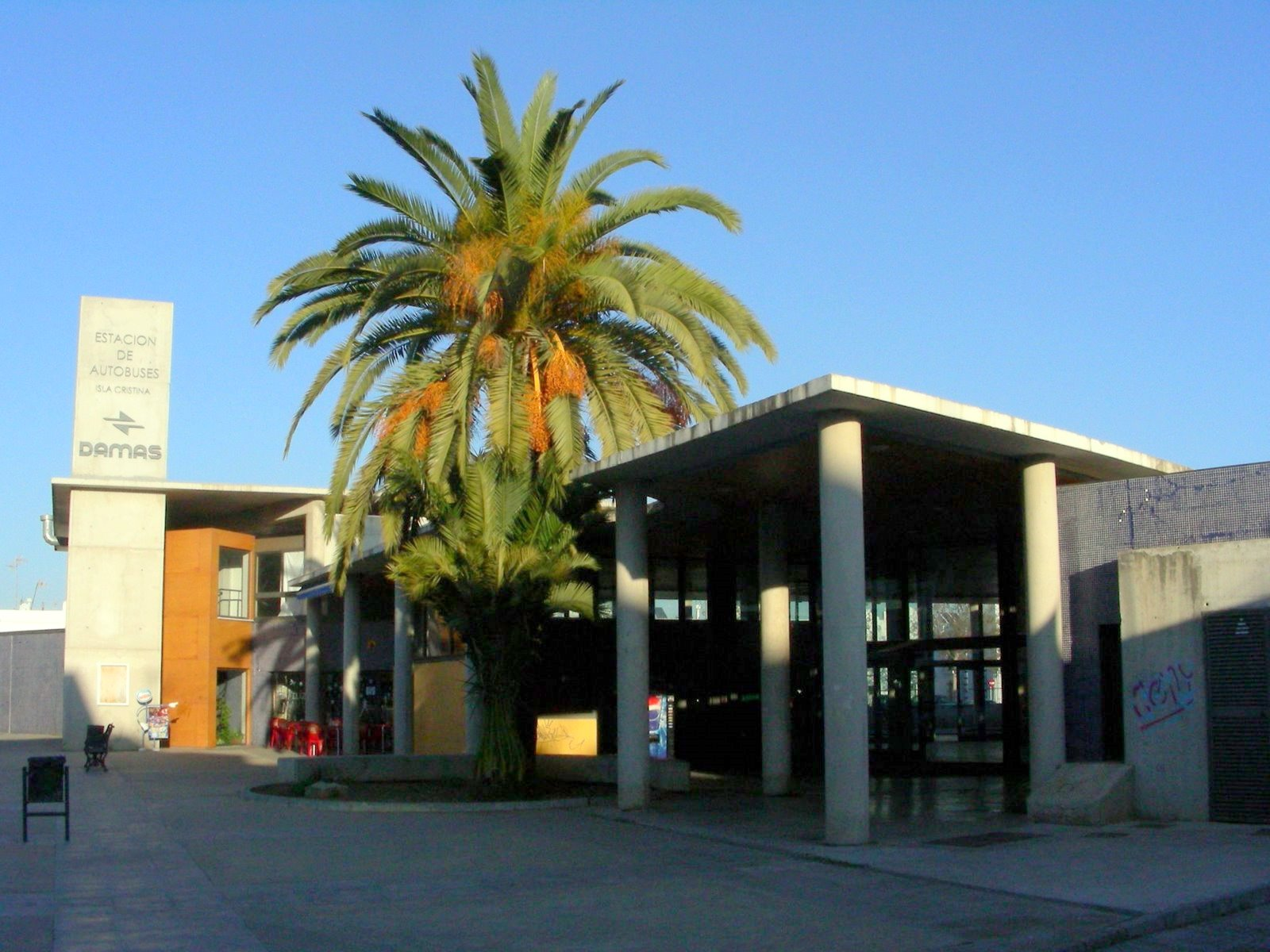 Bus station, Isla Cristina